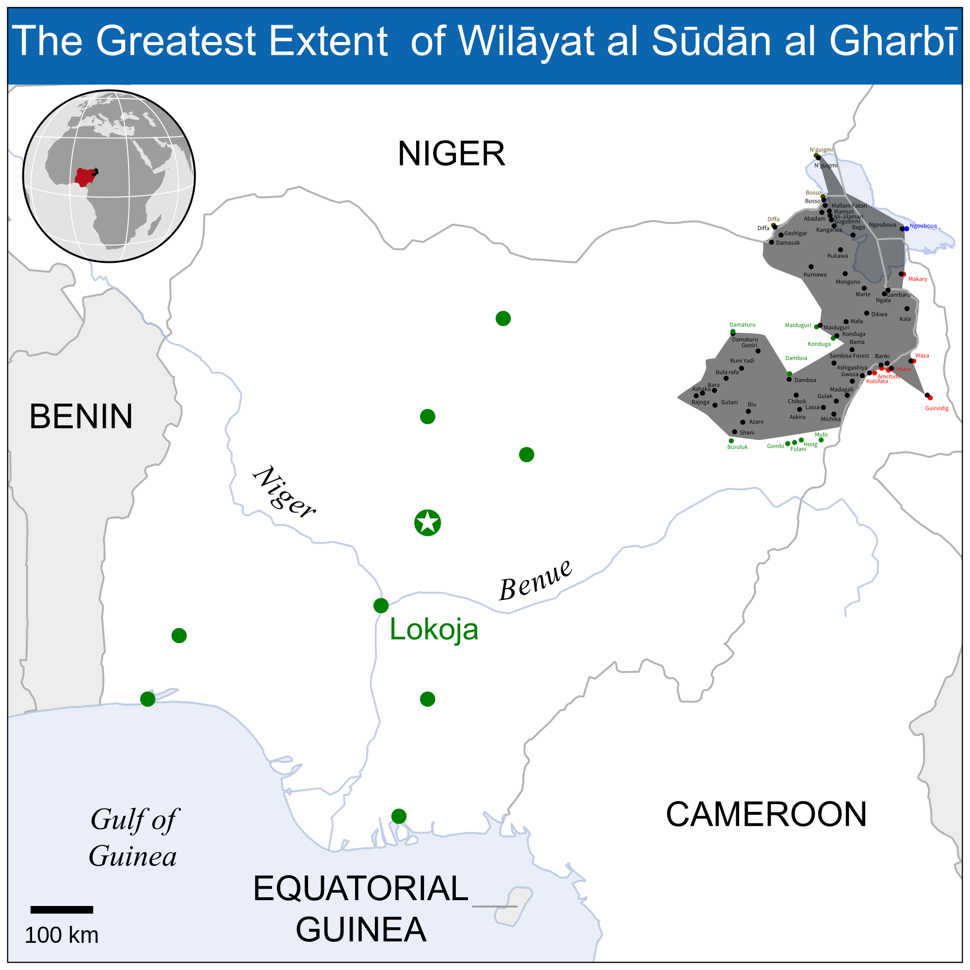 Map of the maximum extend of Boko Haram's territorial control in West Africa's Lake Chad region, in mid-January 2015. After the Lake Chad African nations joined together in a Coalition to defeat Boko Haram, Boko Haram lost most of its territory by March 2015. On March 7, 2015, Boko Haram pledged allegiance to ISIL, becoming ISIL's West African province of Wilāyat al Sūdān al Gharbī.